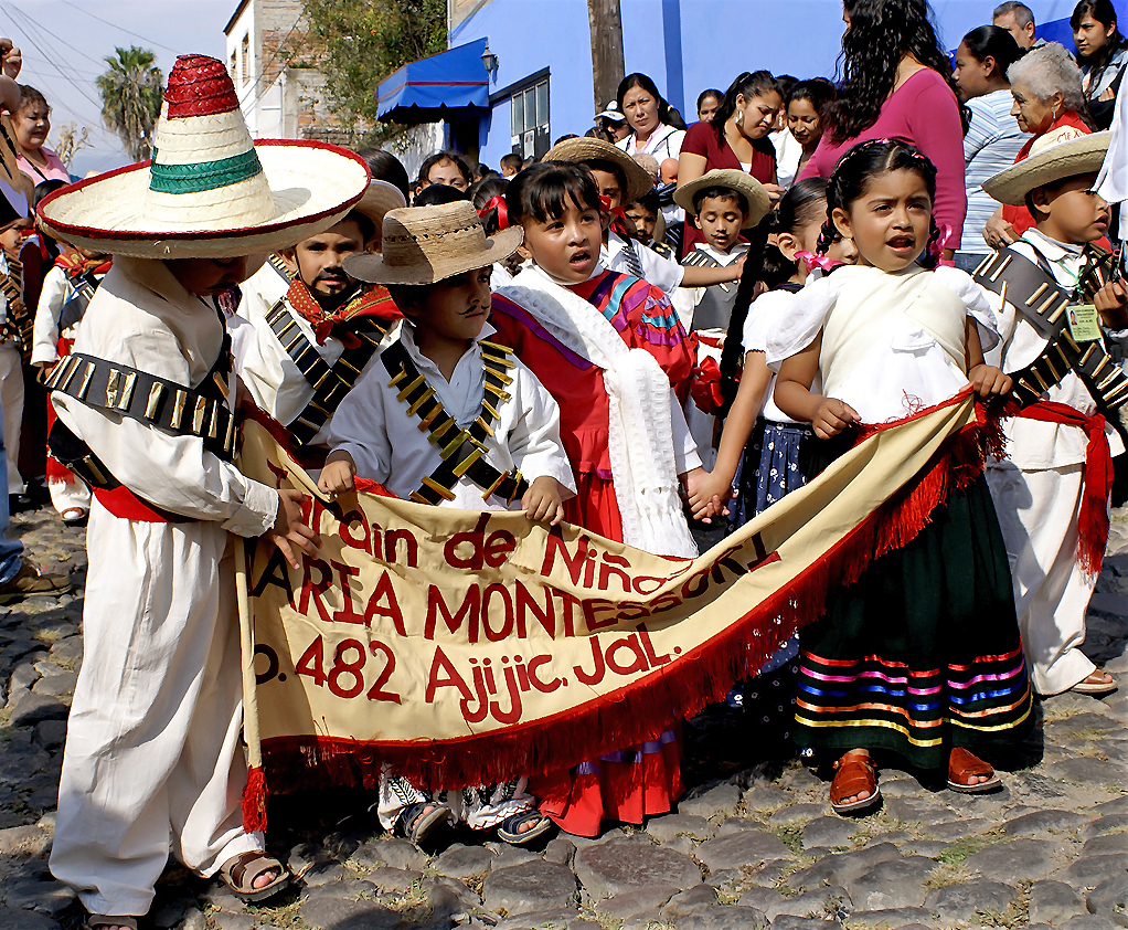 Viva Mexico! Today is the "Dia de la Revolución" - Day of the Mexican Revolution, the parade - Ajijic, Jalisco, Mexico!!! children from the Montessori Kindergarden singing "La Cucaracha... la Cucaracha... ya no puede caminar!!! (((: This is a re-make of an earlier shot.... I just missed this year's parade passing by 2 blocks up from my studio... was immersed in a large canvas !! - A Well there will be An Other Parade Tororrow, as tomorrow the 9-Day Fiestas of Ajijic's Novenario will start. ((((: for the Large View (((